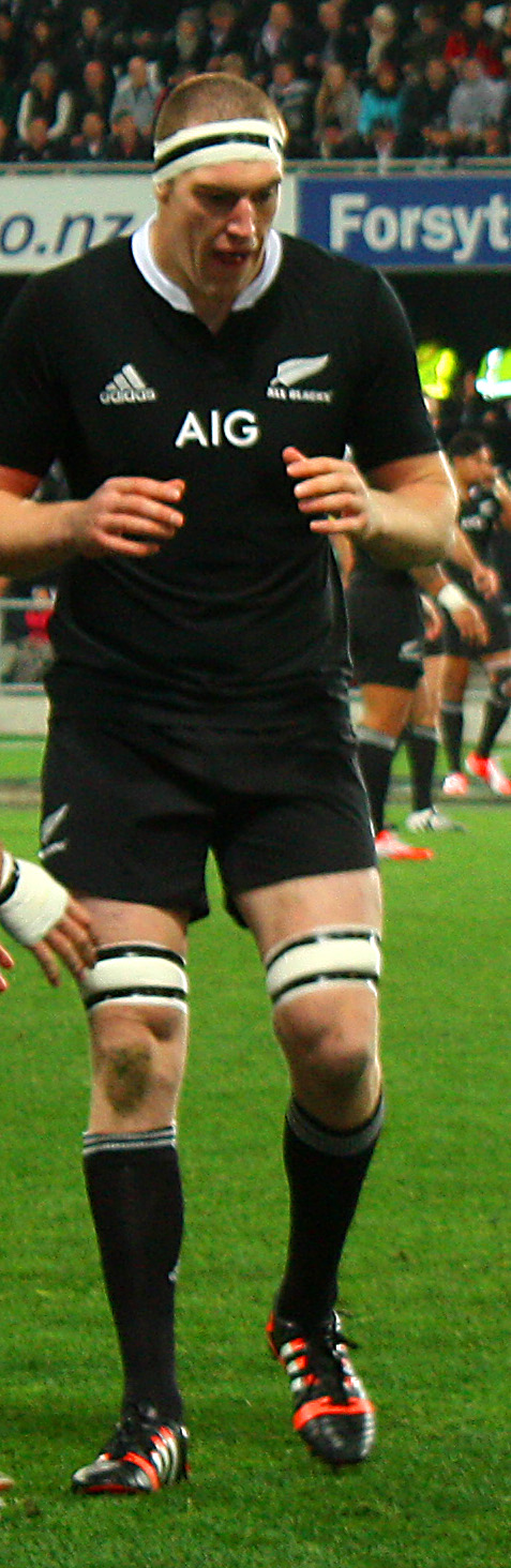 Brodie Retallick (number 4 lock) in Forsyth Barr Stadium Dunedin for the England Test 14 June 2014